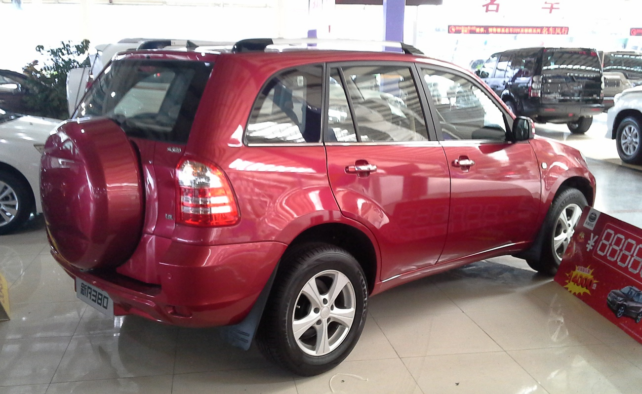 Jonway A380 facelift photographed in Chengdu, Sichuan province, China.